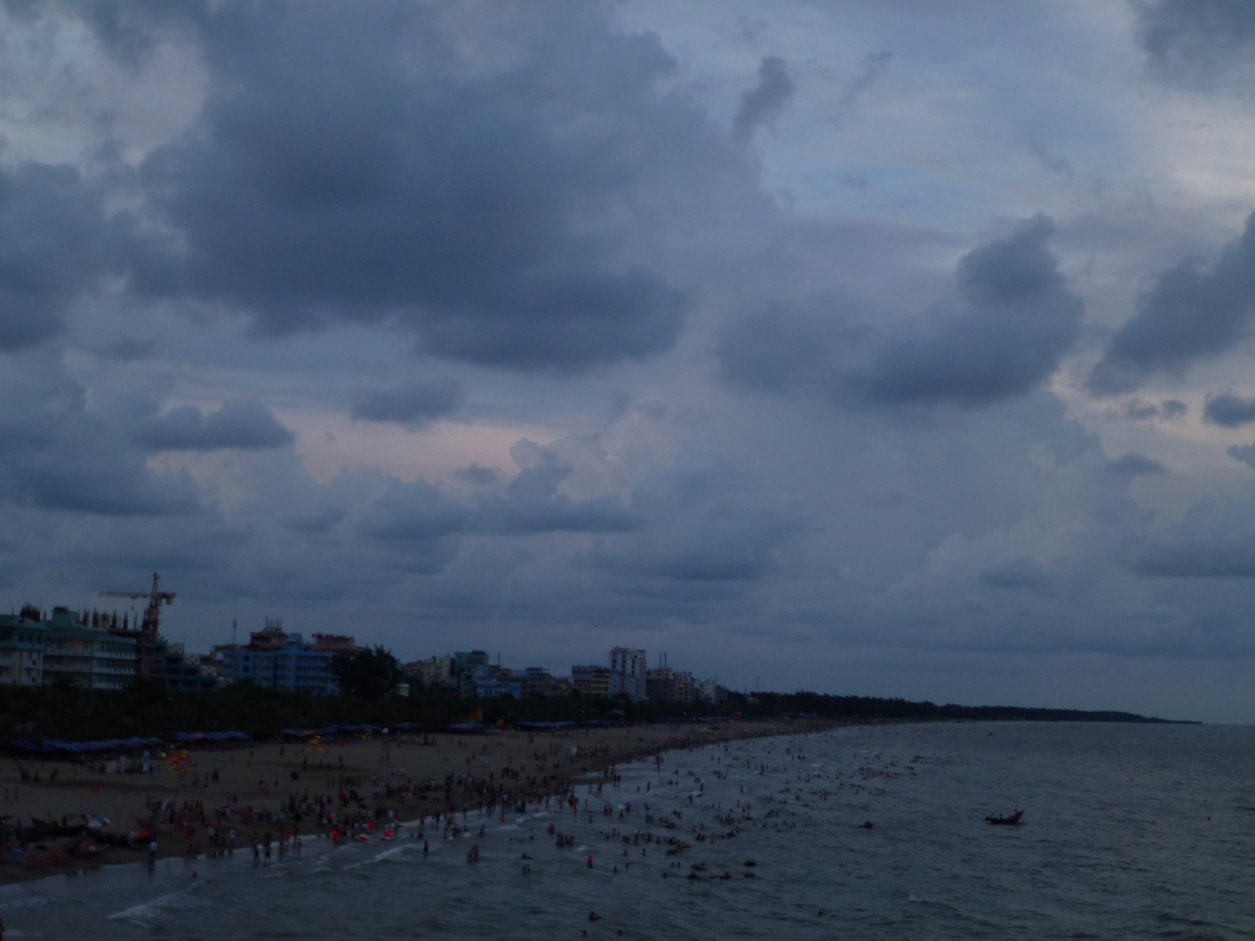 Sam Son beach, VietnamTiếng Việt: Biển Sầm Sơn nhìn từ núi Trường Lệ